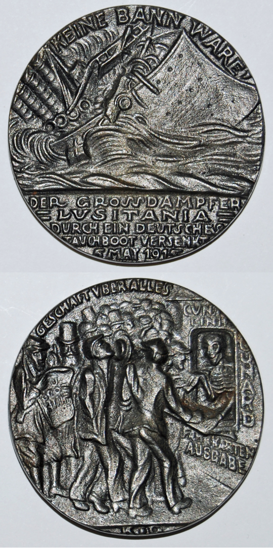 Photograph of an exact replica of the German "Lusitania" commemorative medal, showing both sides. The medal was produced in Britain as evidence of German propaganda concerning the sinking of the RMS Lusitania